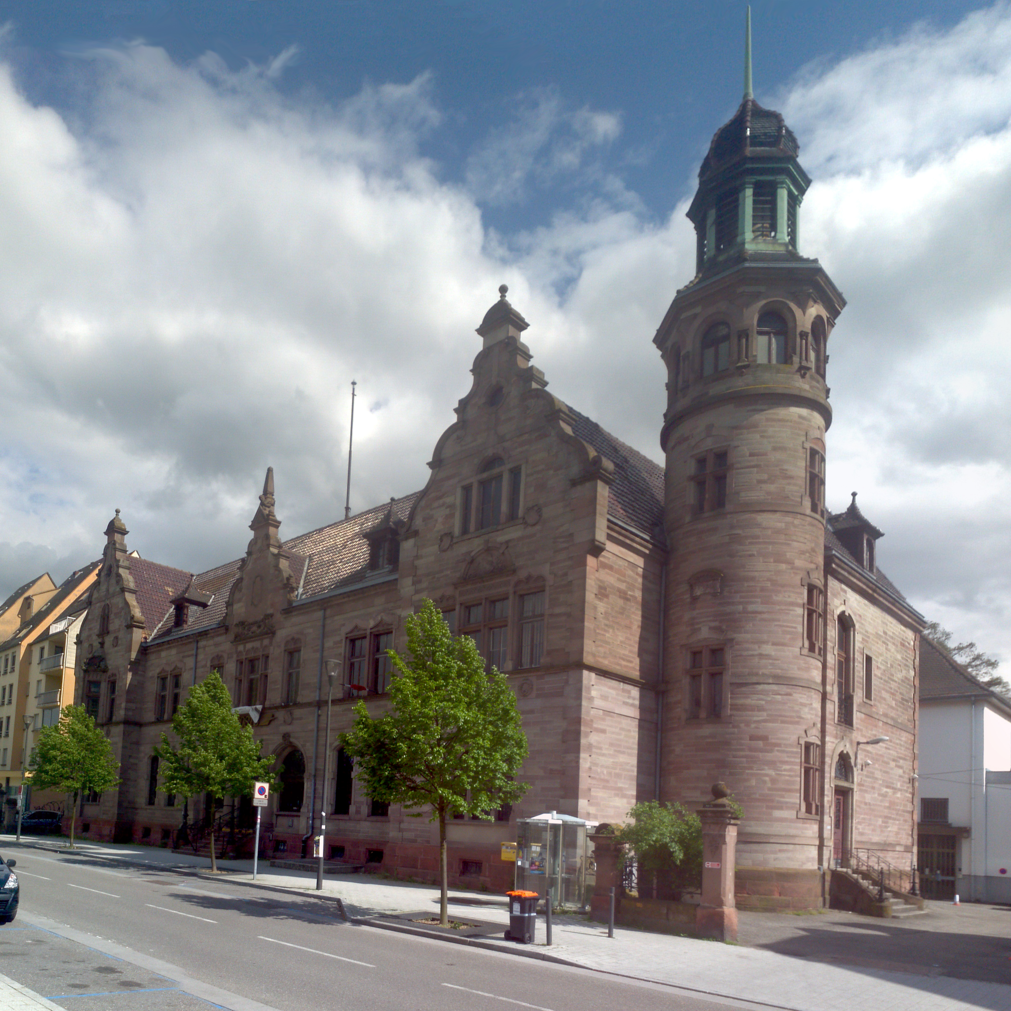 post office, Saverne